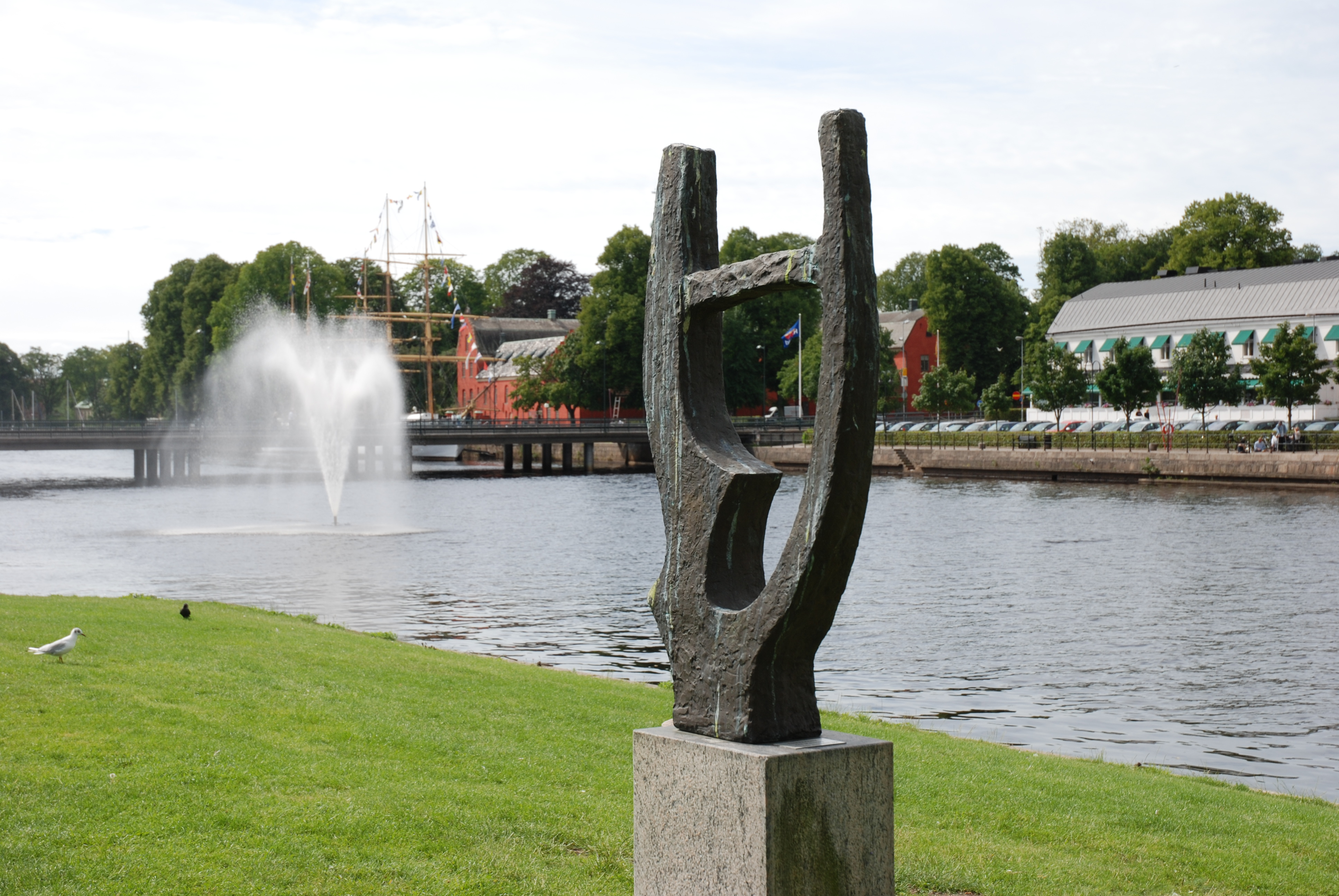 The Harp Tree (Lyrträdet), bronze, 1994, by Swedish Sculptor Axel Wallenberg (1898-1996), by river Nissan in Halmstad, Sweden. Photo: Bengt Oberger